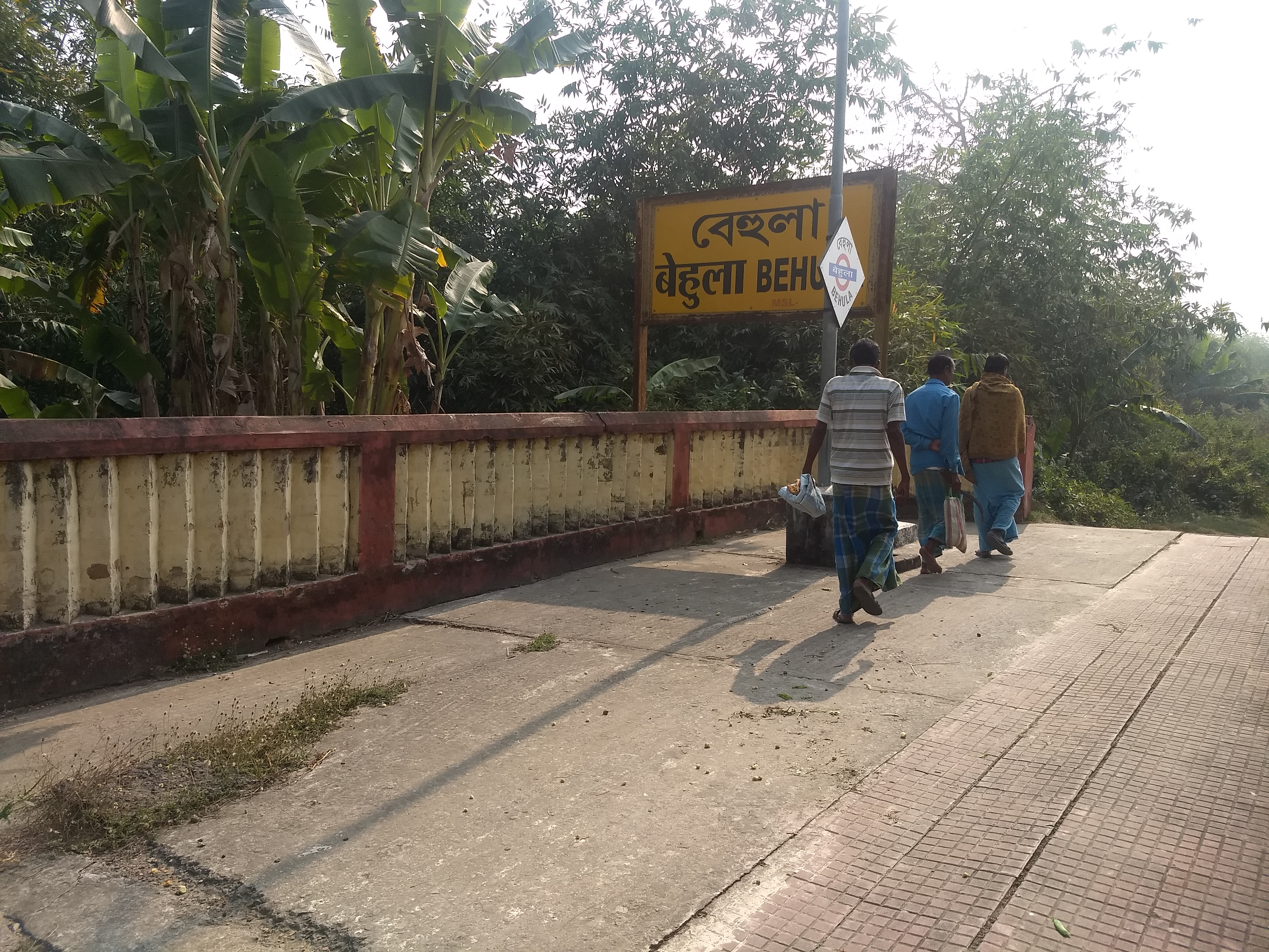 Behula railway station